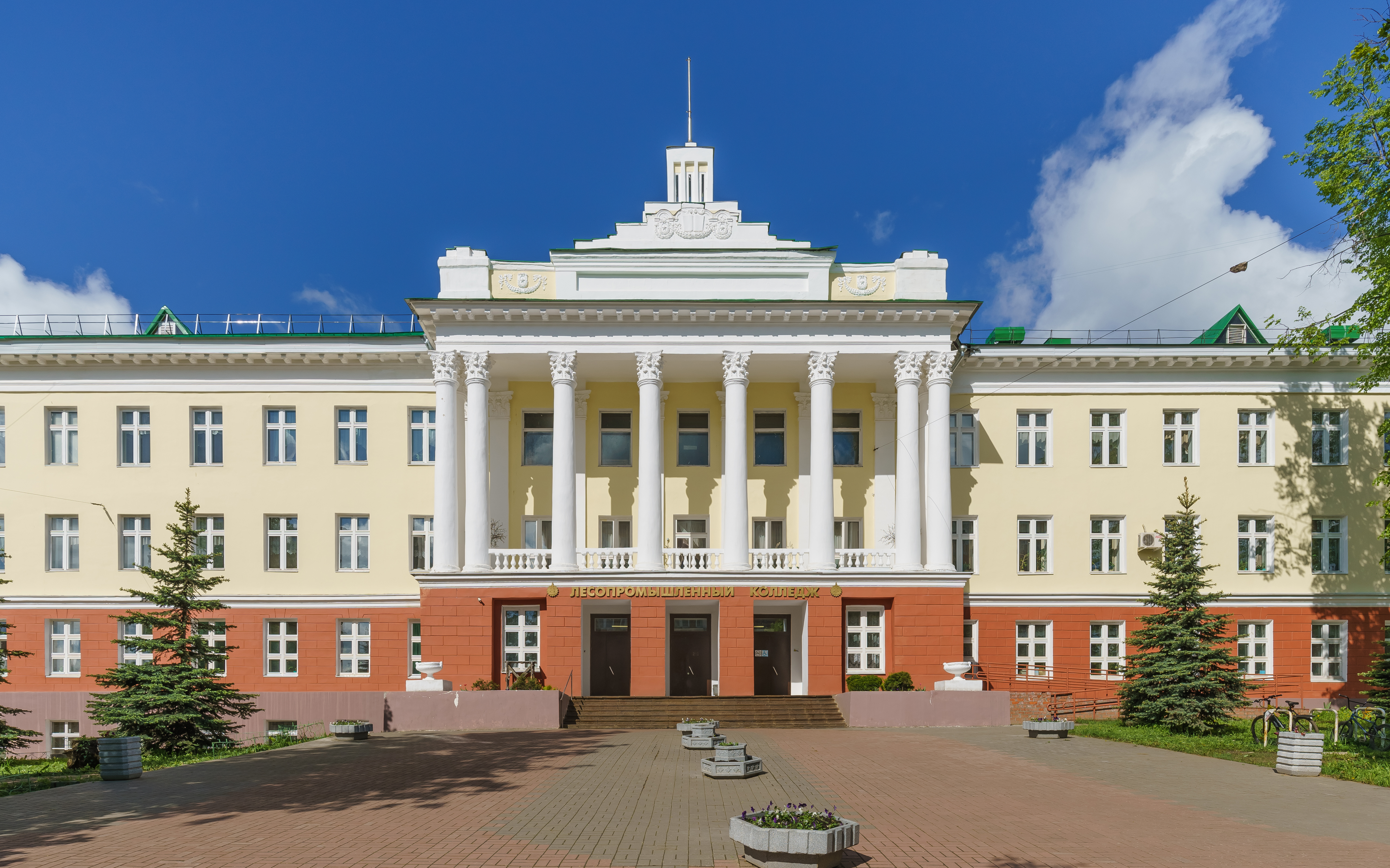 Building of the Forestry Industrial College in Kirov, Russia